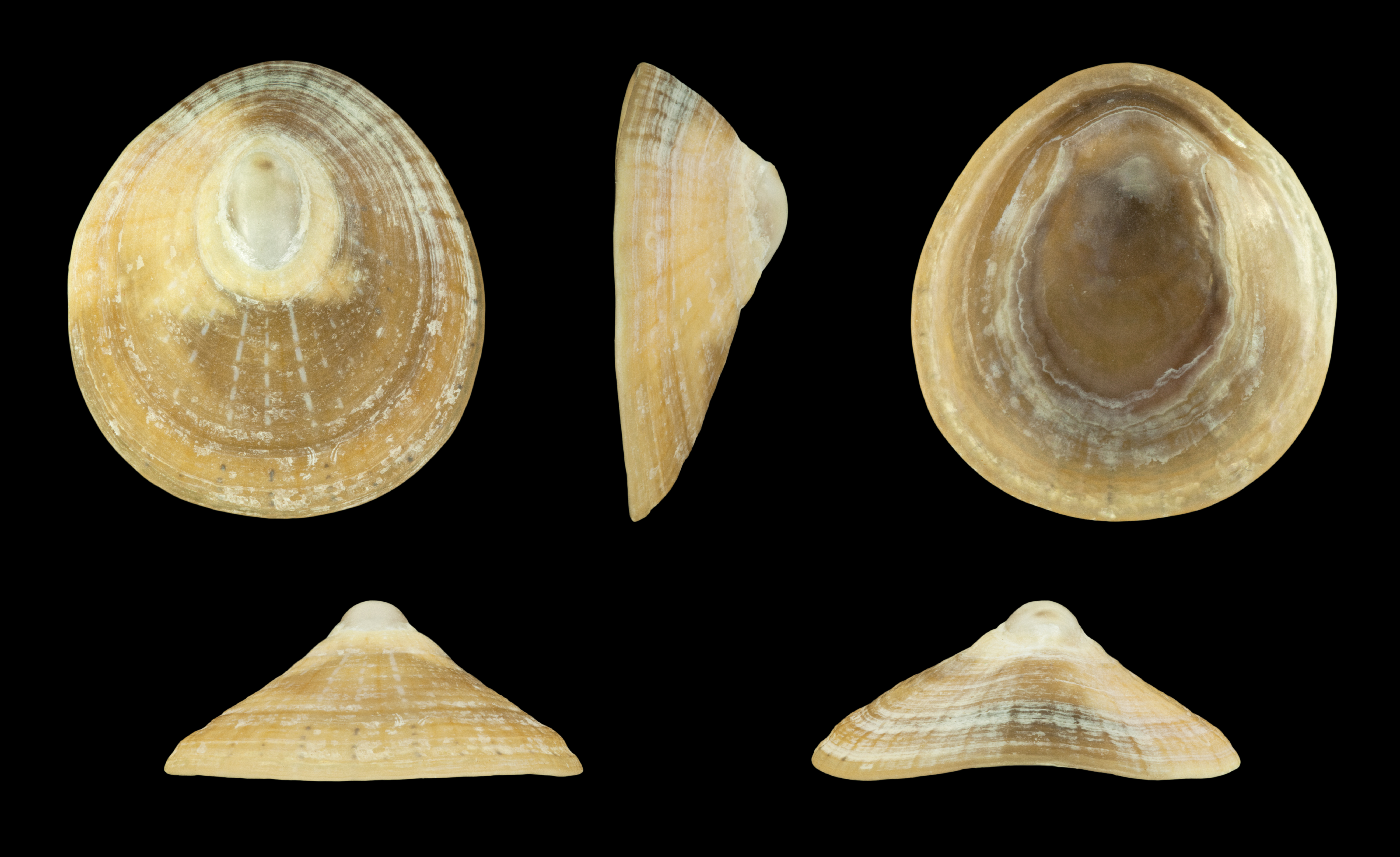 Patella pellucida var. laevis Pennant, 1777, Blue-rayed limpet; Length 1.7 cm; Originating from Brittany, France; Shell of own collection, therefore not geocoded.